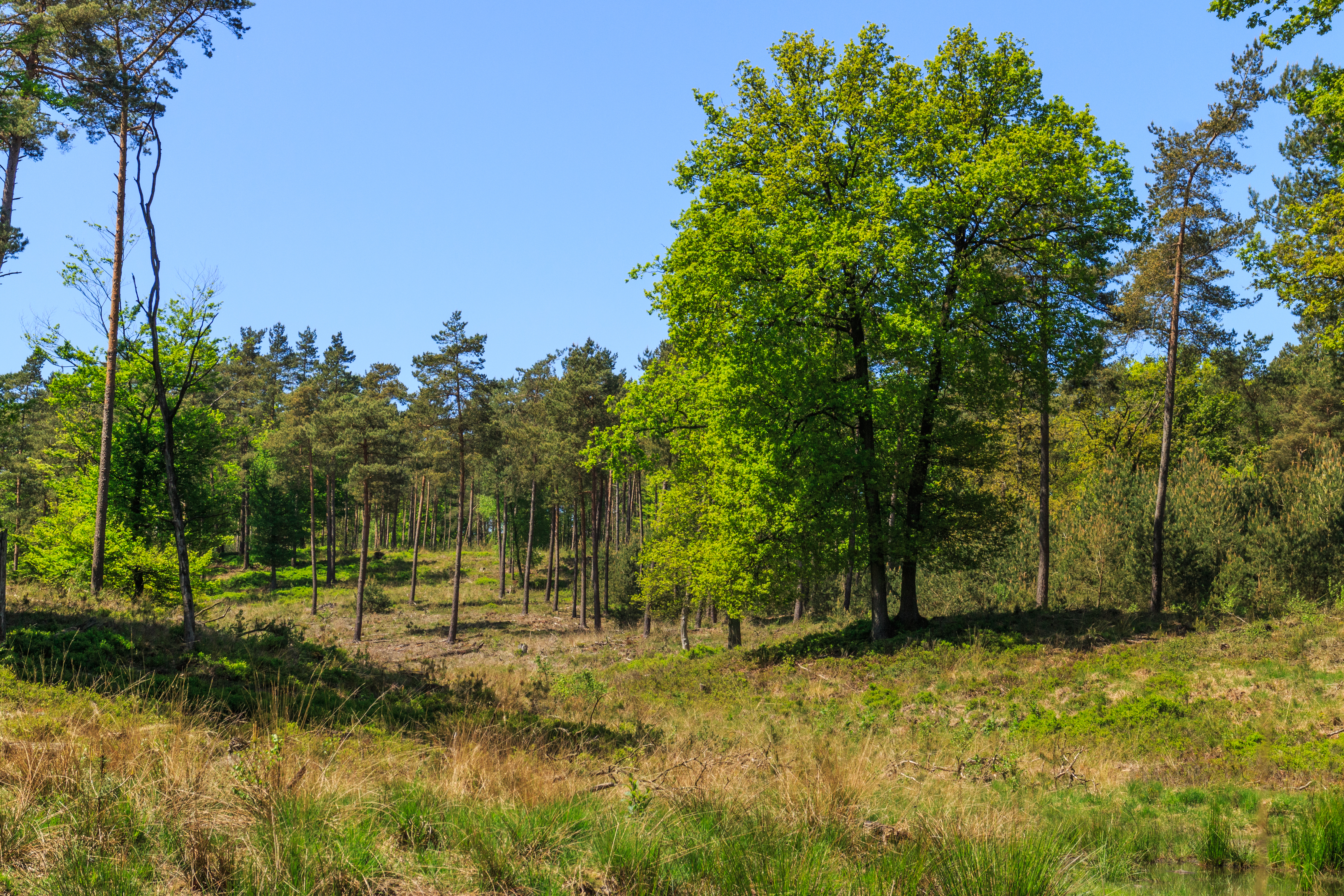 Half open hilly landscape. Location, Kroondomein Het Loo (Netherlands).